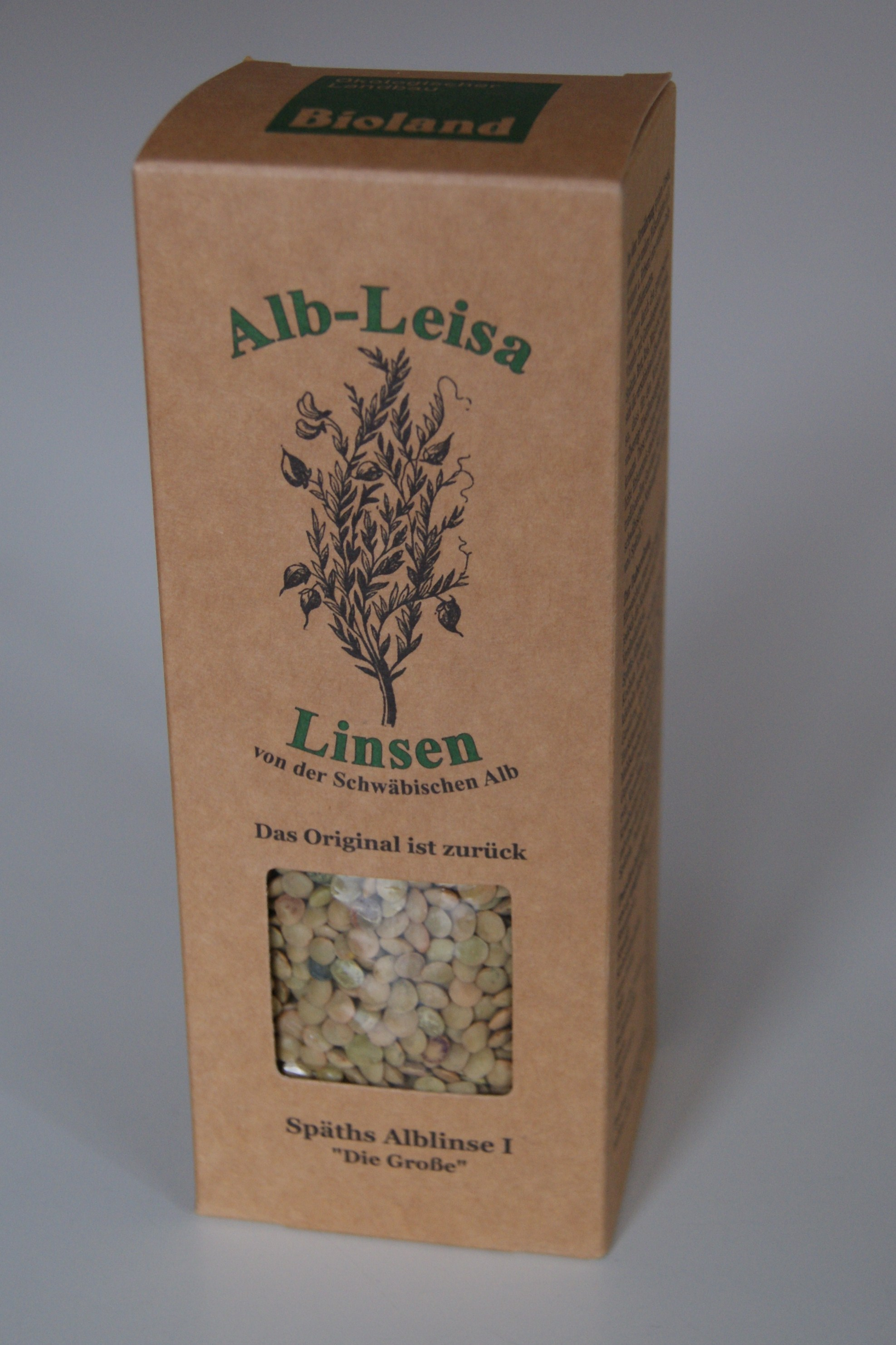 The traditional Alb lentil Type I, originating from the Swabian Alb, which were thought lost, but rediscovered at the Vavilov Institute of St. Petersburg in 2006.